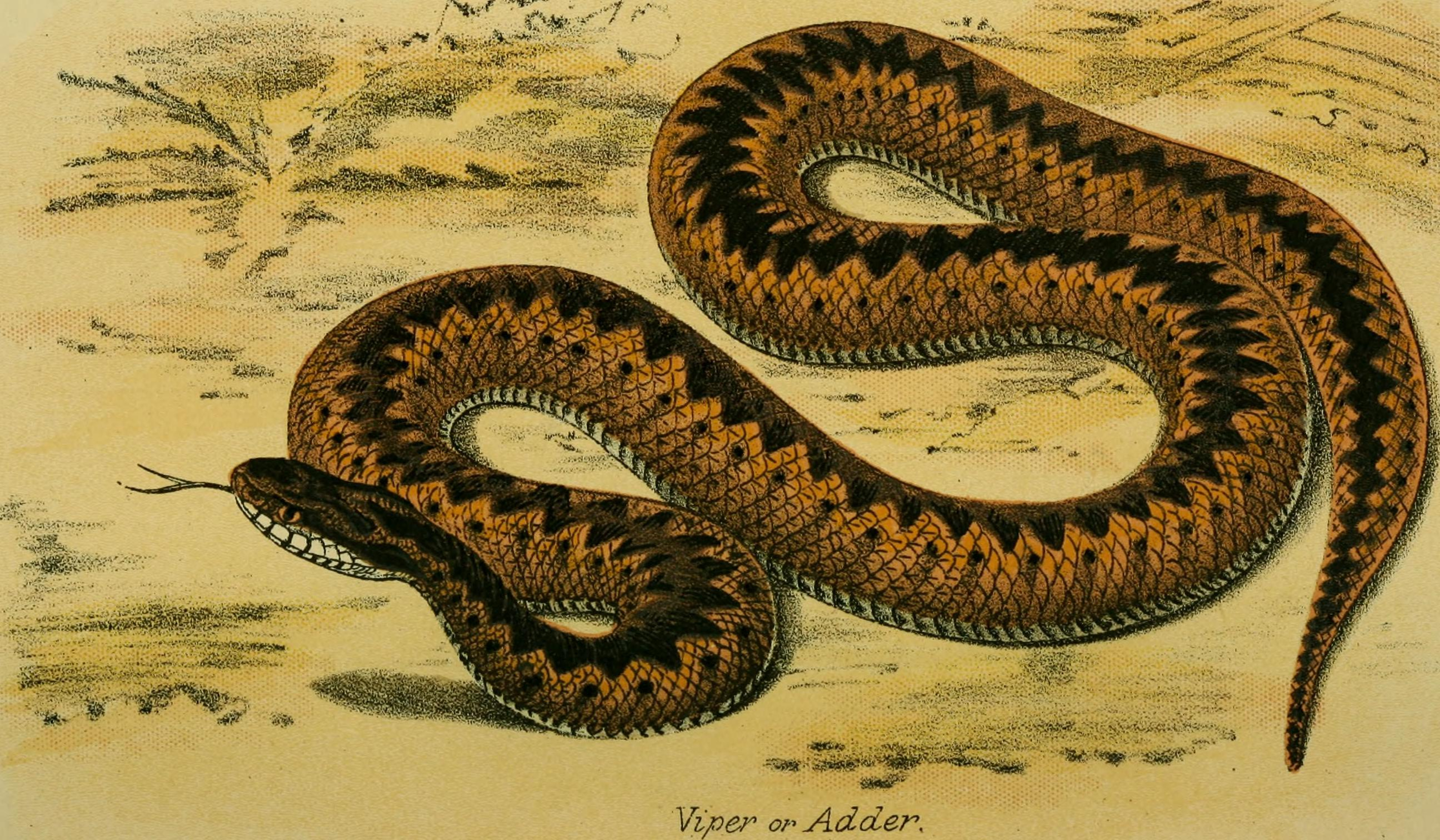 VIPER OR ADDER Title: Our reptiles and batrachians; a plain and easy account of the lizards, snakes, newts, toads, frogs and tortoises indigenous to Great Britain Year: 1893 (1890s) Authors: Cooke, M. C. (Mordecai Cubitt), b. 1825 Subjects: Reptiles Amphibians Publisher: London, W. H. Allen & co., limited Text Appearing Before Image: ' Text Appearing After Image: 67 THE VIPER OR ADDER.